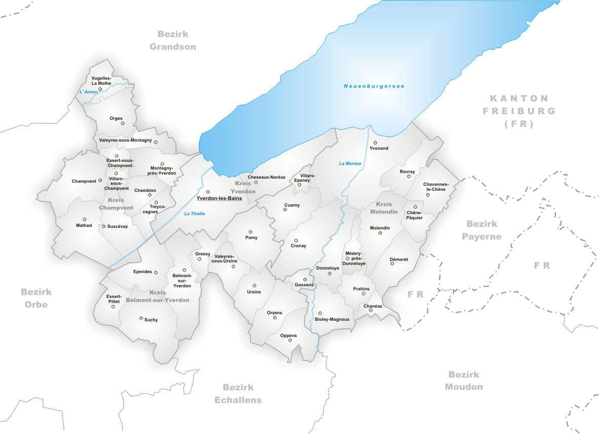 Municipalities of District Yverdon until 2007